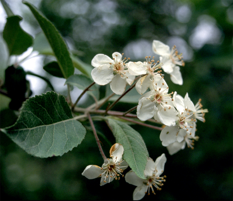 Malus fusca — Oregon crab apple, blossoming. At the Humboldt Bay National Wildlife Refuge Complex, Humboldt County, northern California.